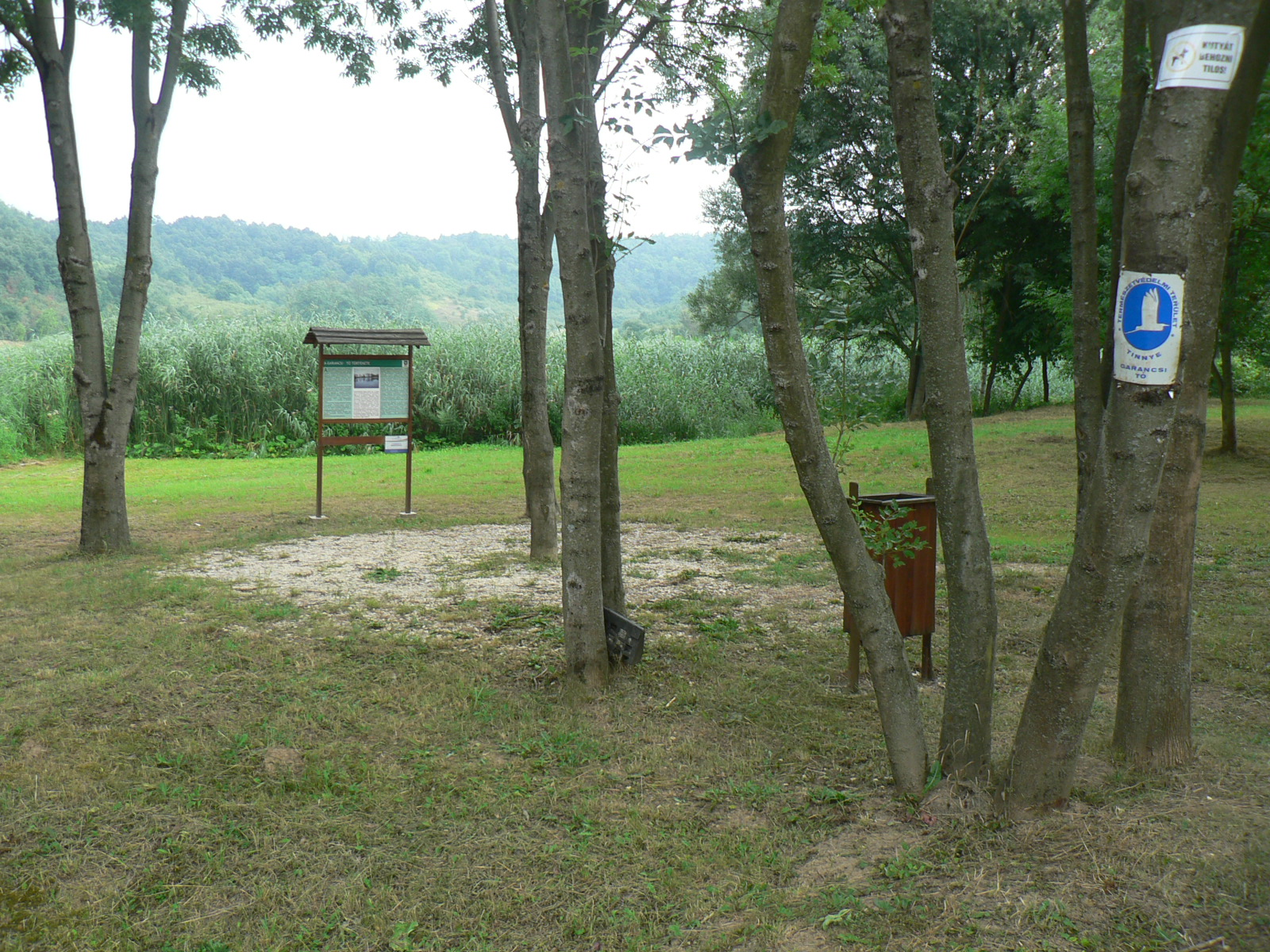 A Garancsi-tó tanösvény kiindulási pontja